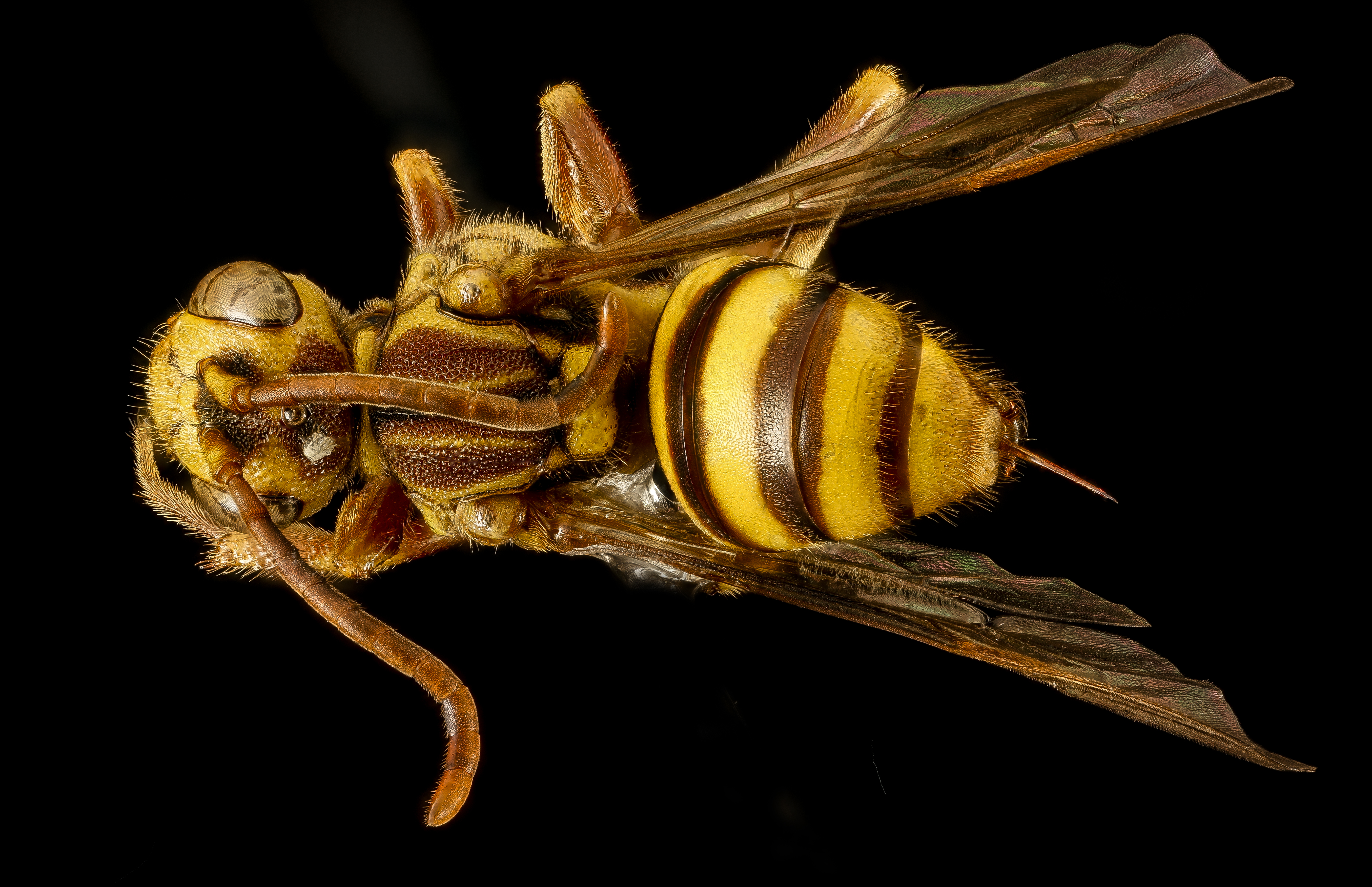 Nomada fragariae - A rare cleptoparasite, almost certainly of Andrena...but which species. There are very few records of this species, and only in the last few years has the female been described. In most collections the Nomada sit at the end in a mosh pit waiting for someone to identify them...a tricky group. This one was caught right across the street from my lab cruising around a patch of bluets...it was not clear what the host bee was as all the Andrena captured were small and this is a big bee....so would have a big host. hmmmmm. 03:05, 11 April 2016 (UTC)03:05, 11 April 2016 (UTC) 0 03:05, 11 April 2016 (UTC)03:05, 11 April 2016 (UTC) All photographs are public domain, feel free to download and use as you wish. Photography Information: Canon Mark II 5D, Zerene Stacker, Stackshot Sled, 65mm Canon MP-E 1-5X macro lens, Twin Macro Flash in Styrofoam Cooler, F5.0, ISO 100, Shutter Speed 200 Beauty is truth, truth beauty - that is all Ye know on earth and all ye need to know " Ode on a Grecian Urn" John Keats You can also follow us on Instagram account USGSBIML Want some Useful Links to the Techniques We Use? Well now here you go Citizen: Art Photo Book: Bees: An Up-Close Look at Pollinators Around the World Basic USGSBIML set up: USGSBIML Photoshopping Technique: Note that we now have added using the burn tool at 50% opacity set to shadows to clean up the halos that bleed into the black background from "hot" color sections of the picture. PDF of Basic USGSBIML Photography Set Up: ftp://ftpext.usgs.gov/pub/er/md/laurel/Droege/How%20to%20Take%20MacroPhotographs%20of%20Insects%20BIML%20Lab2.pdf Google Hangout Demonstration of Techniques: or Excellent Technical Form on Stacking: Contact information: Sam Droege 301 497 5840